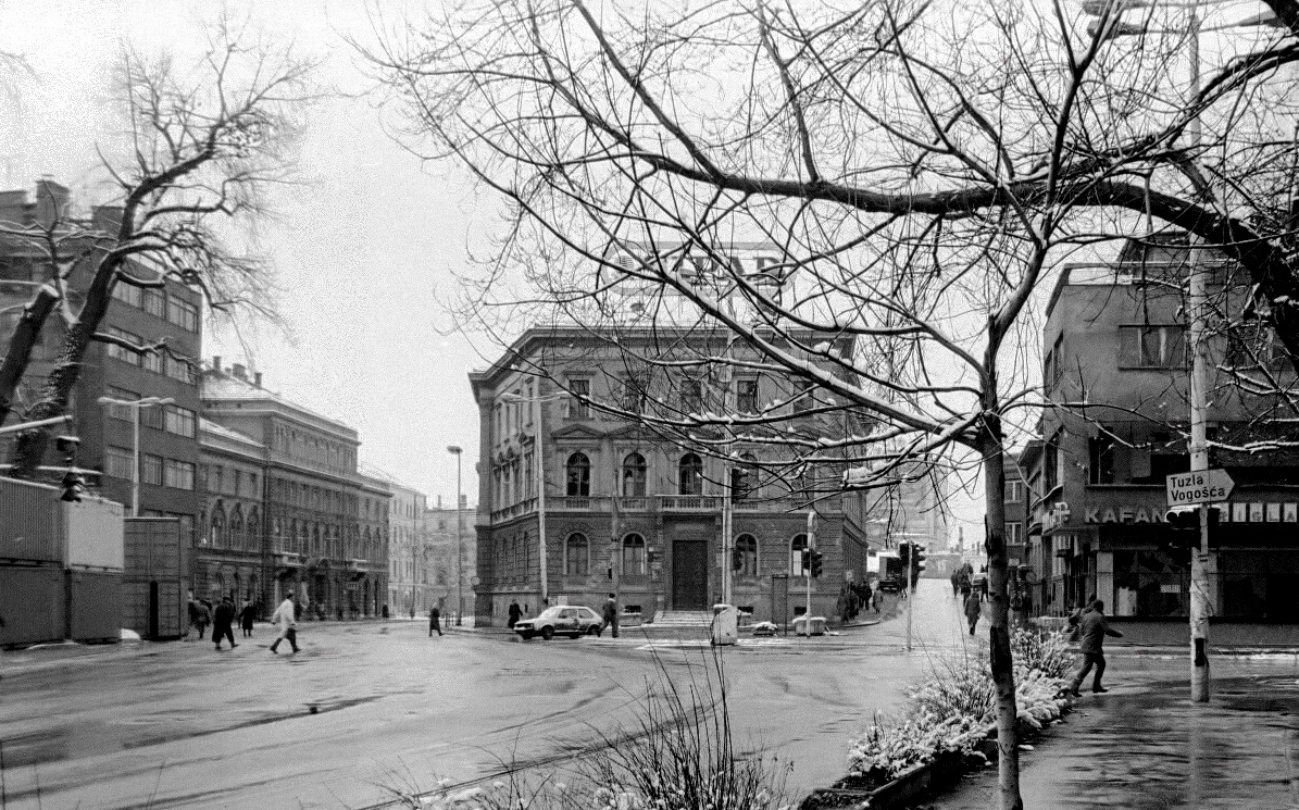 Sarajevo siege, winter of 1992-1993. Pedestrians and a solitary car hurry across the Skenderija junction on Marshal Tito Street. Stacked shipping containers (far left) give partial protection from snipers. (People are shot through the gaps. Also, heavy rounds pass through the containers.) Marshal Tito Street curves out of sight at left and turns into Vojvode Putnika -- 'Sniper Alley' -- where pedestrians and vehicles are fired on from high-rise buildings in Grbavica. Right fork (white car) is Ulica Kranjčevića, where you can reach the Holiday Inn across muddy grass, which some say is the most dangerous piece of open ground. Street at far right is Ðure Ðakovića. It runs uphill, giving snipers in elevated locations clear aim over the shipping containers. Christian Maréchal photo